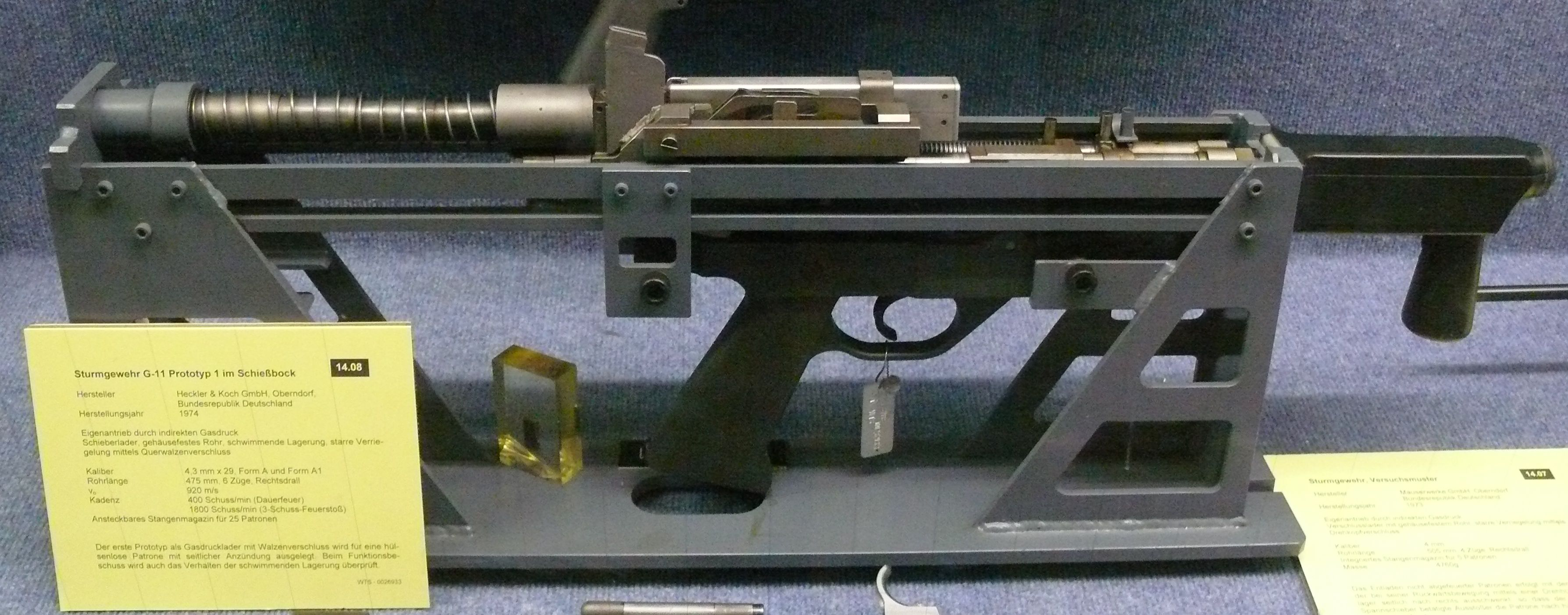 The first Prototype of the G11 Assault Rifle by Heckler & Koch.